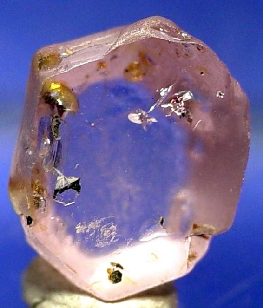 Magnesiotaaffeite-2N'2S Locality: Ratnapura, Ratnapura District, Sabaragamuwa Province, Sri Lanka (Locality at ) A rare full crystal with nice lavender color! and complete! Taaffeeite was an odd story - a gem crystal species first identified from gem rough material, rather than from a crystal. It was a long time before anybody found a crystal to work with, and today they are still extremely rare, probably the rarest and most desirable of the various gem species found in Sri Lanka. This remarkable floater, complete hexagonal crystal is extremely fine and GEMMY. Most specimens are tiny broken chunks, or the occasionally fine transparent crystal with SOME faces. This is remarkable for the quality ,and would cut a small gemstone with high value. it has been analyzed, for confirmation. 5 x 4 x 2.5 mm (1.47 carats)